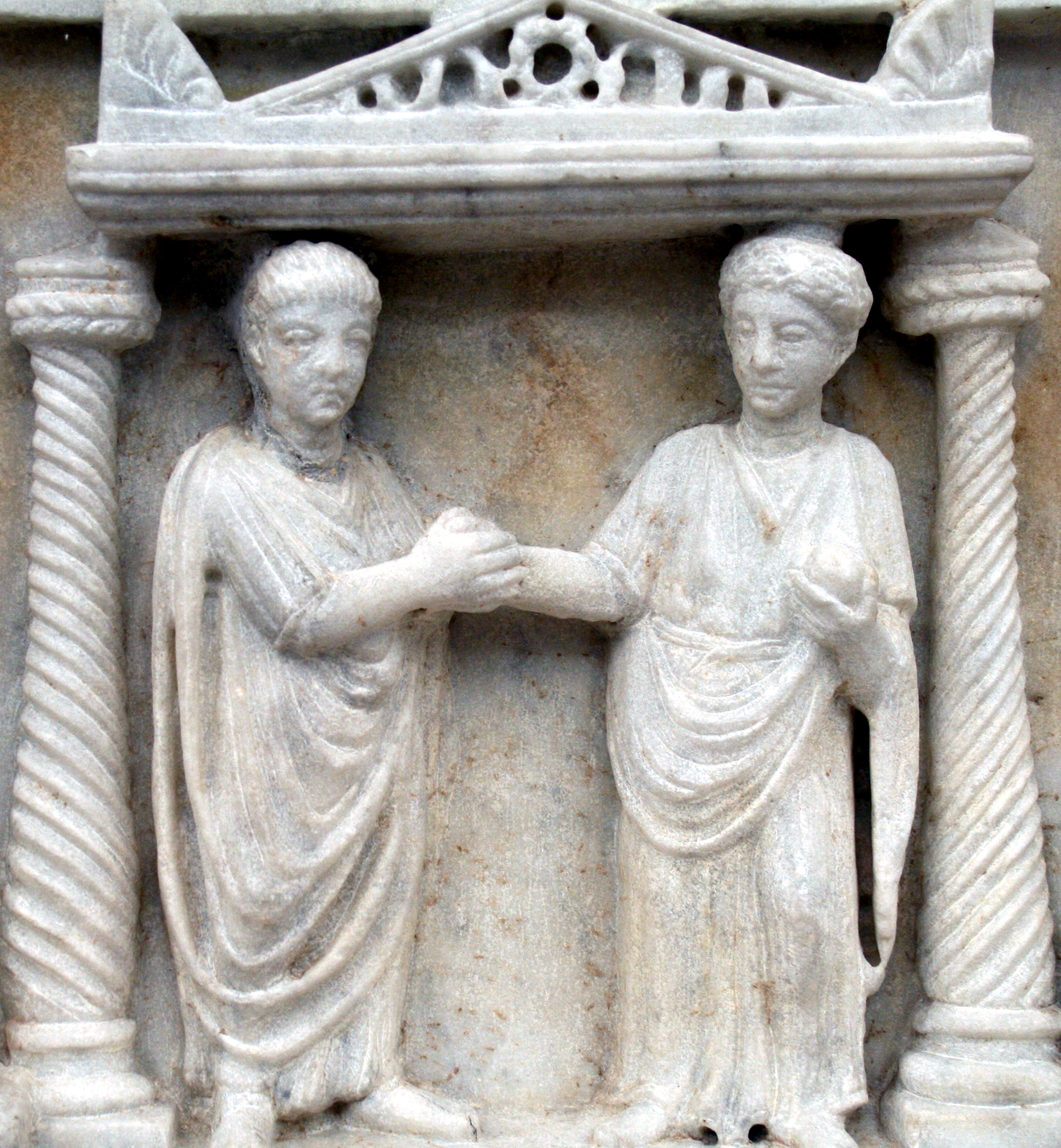 Ancient Roman marriage